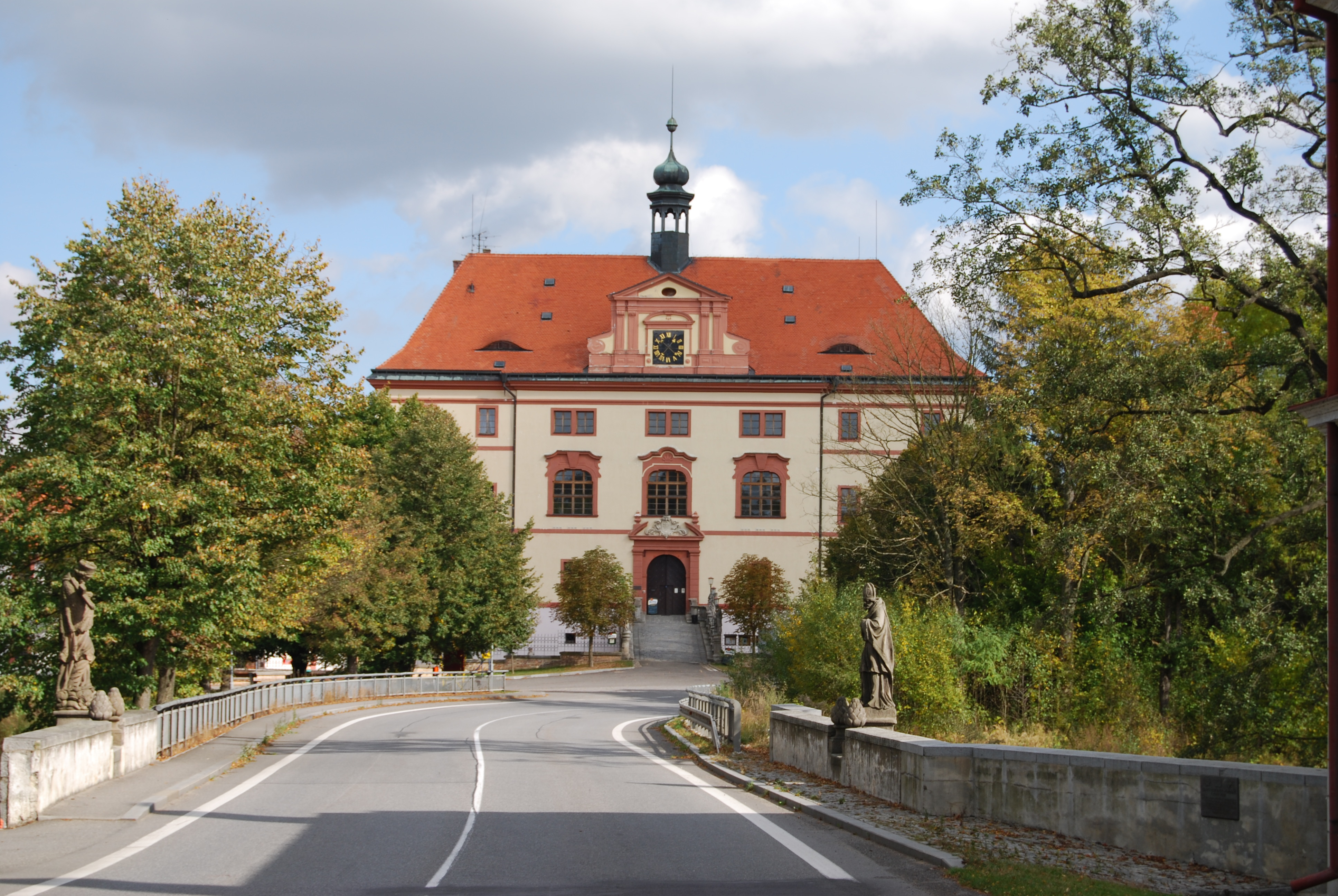 "Nový zámek" in Lnáře town, Strakonice District, Czech Republic.